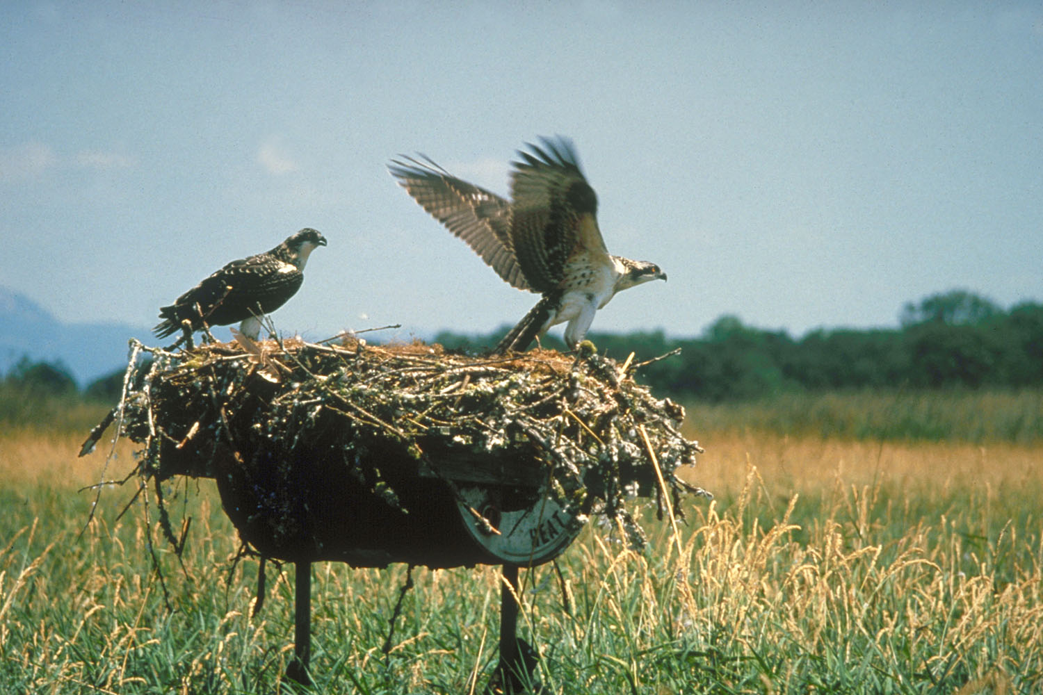 Ospreys nesting in an artificial osprey nest near Fern Ridge Reservoir, west of Eugene, Oregon, USA.